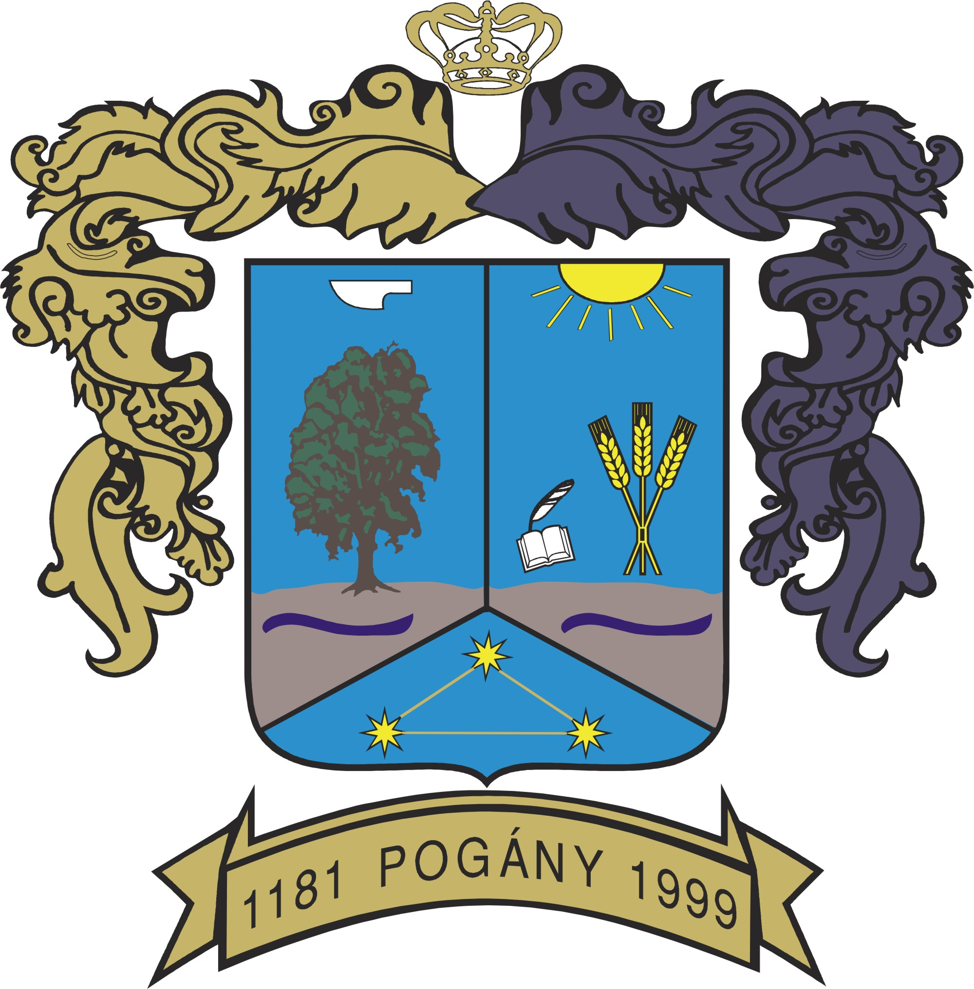 Coat of arms of Pogány, Hungary